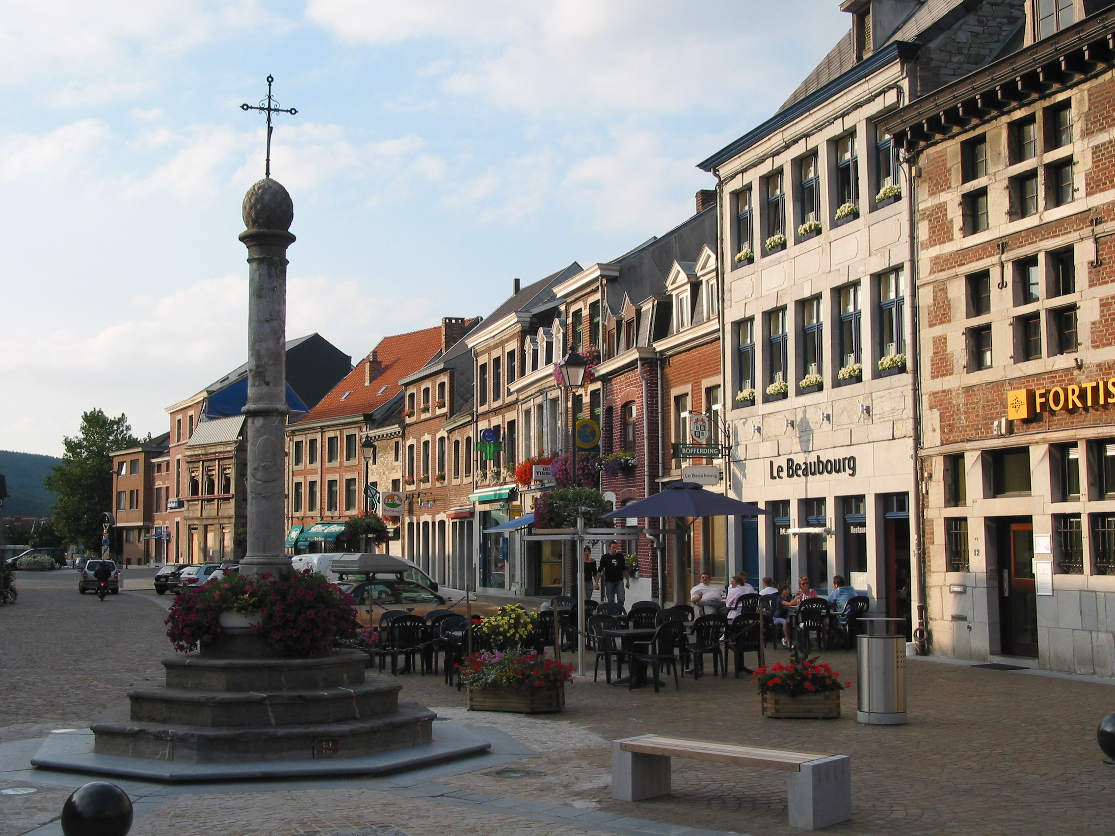 Theux (Belgium), the Perron square with its typical houses (XVII-XVIIIth centuries).